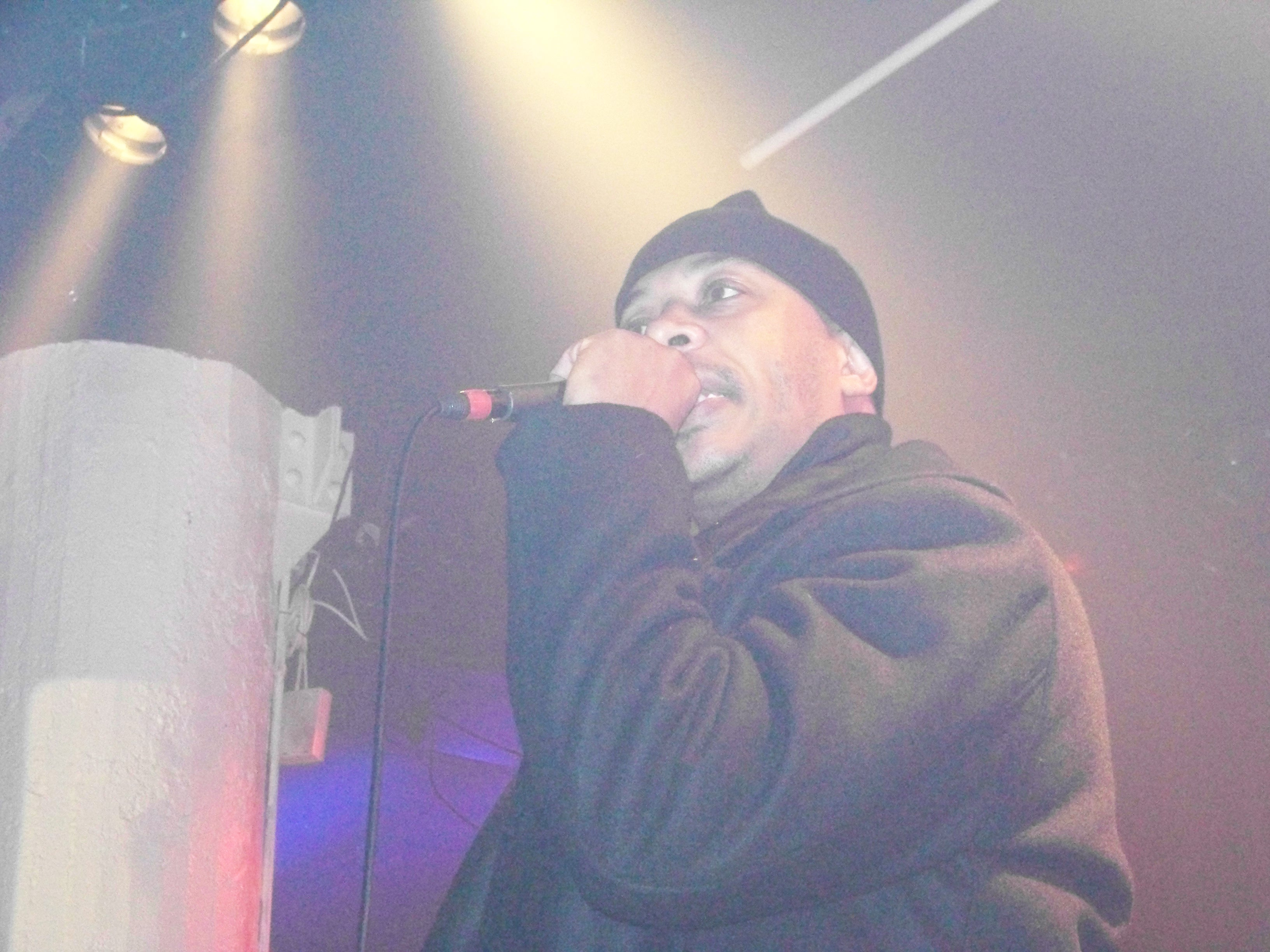 Rapper U-God performing in Atlanta, Georgia.